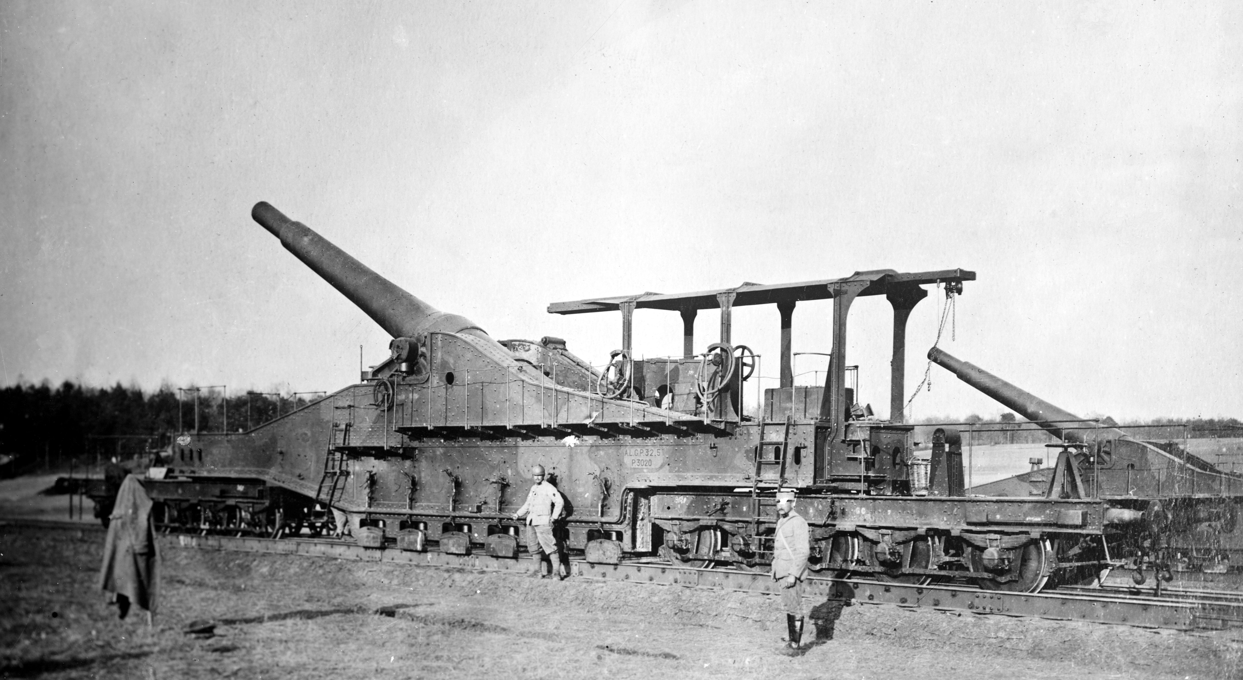 French 320 mm railway gun during World War I.